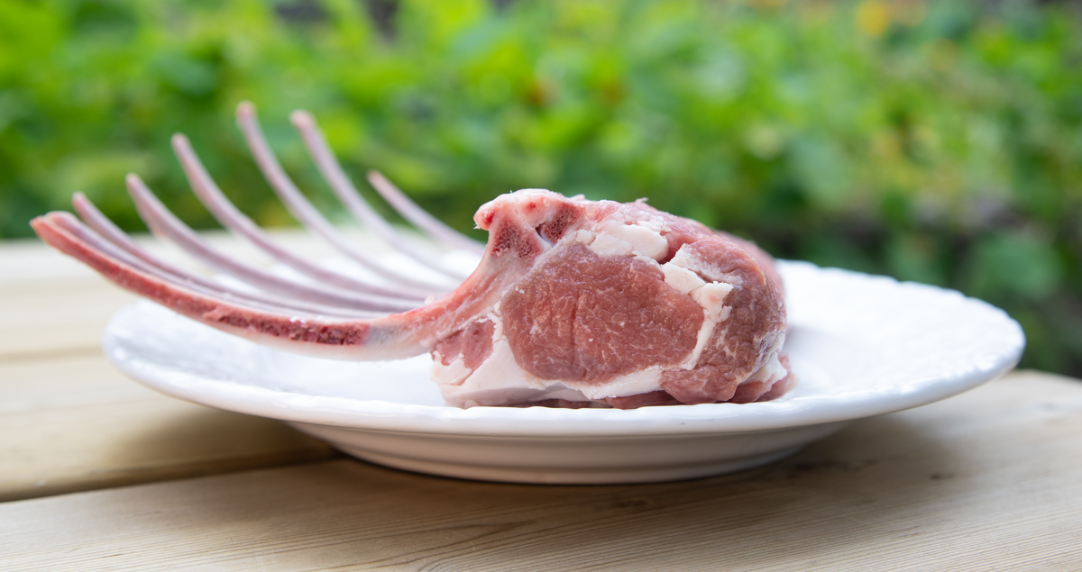 Lamb racks